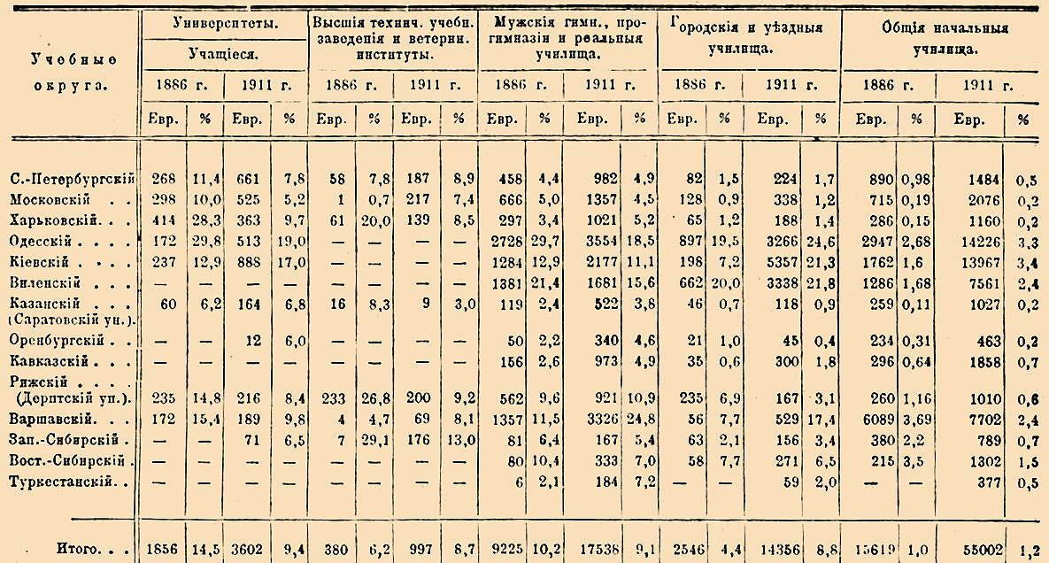 Illustration from Brockhaus and Efron Jewish Encyclopedia (1906—1913)